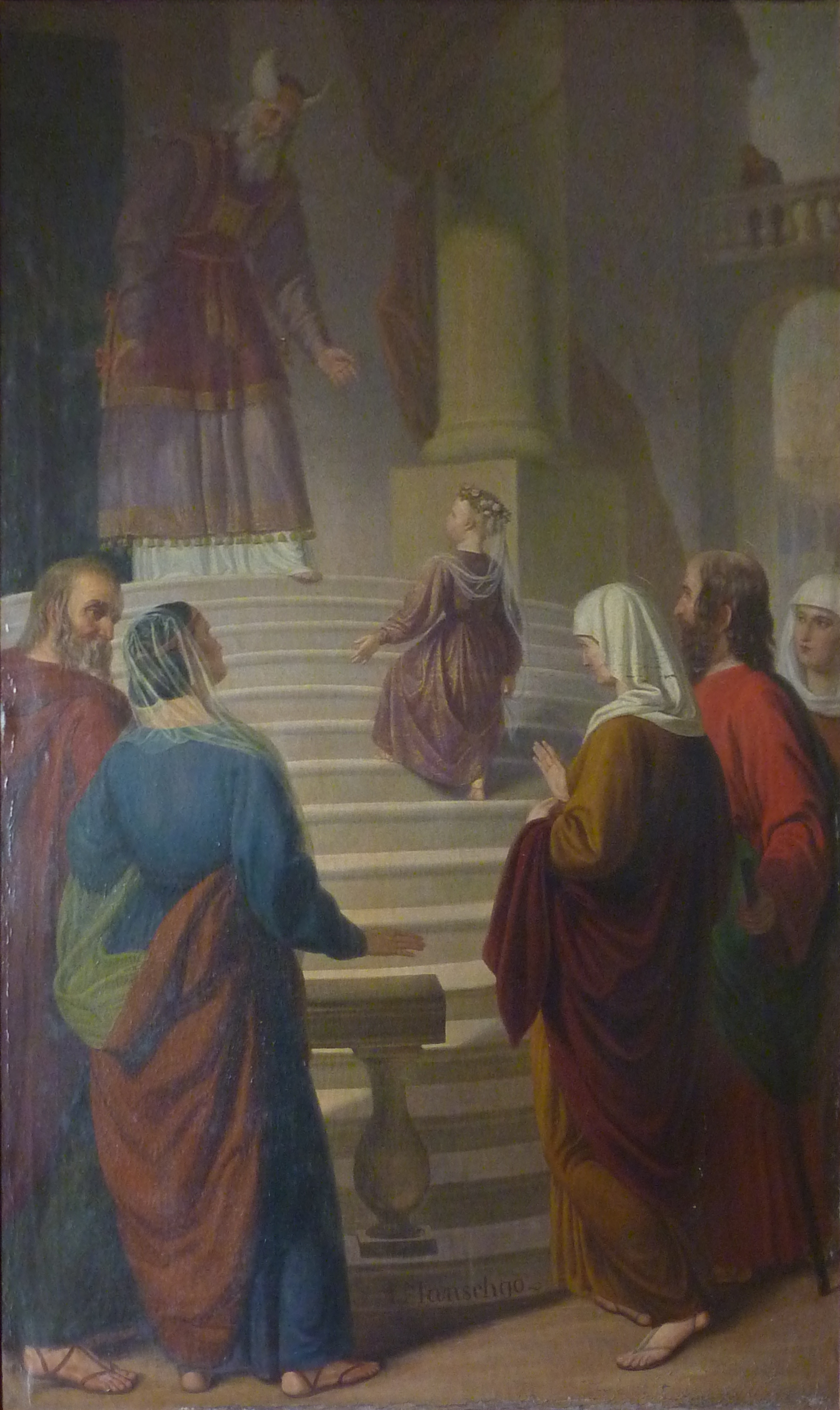 The Presentation of the Virgin Mary in the Temple of Jerusalem